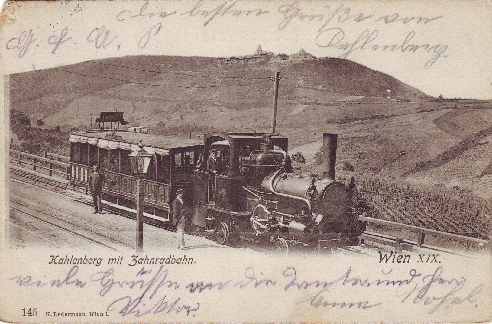 Cograil train of the Kahlenberg Railway in Vienna